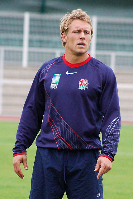 Jonny Wilkinson with English team training session